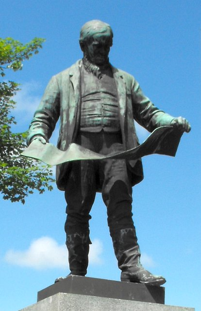 David Davies Llandinam Born in Llandinam in 1818, Davies was the son of a tenant farmer. He left school at 11 and worked with his father both on the farm and as a sawyer. He made enough money to buy himself a farm and then another. Farms in the Severn valley are prone to flooding and Davies's flood prevention work impressed the then County Surveyor of Montgomeryshire Thomas Penson and he was asked to take on the work of building the foundations, road and embankment for a new iron bridge across the Severn. As his civil engineering skills developed he turned his attention to the building of railways and was responsible for the Llanidloes to Newtown line (now dismantled, the Llandinam station was at the western end of the nearby bridge) and later the Mid Wales Railway from Llanidloes to Llandovery and the Cambrian Railway. His interests then turned to coal and, with a group of investors, he started mining in the upper Rhondda Valley. Another of his lasting achievements was the building of Barry Docks which he needed to secure a stable overseas market for his Rhondda coal. This is the twin of the statue of Davies outside the Barry Dock Office . He is shown holding the plans for Barry Docks.